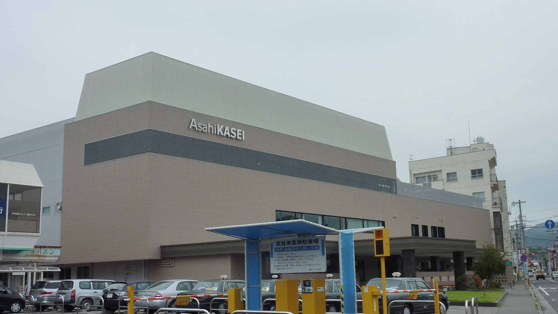 Asahi Kasei Nobeoka Branch (Nobeoka City, Miyazaki, Japan)